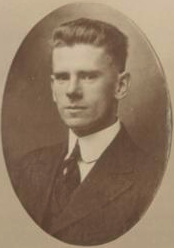 Virginia state senator George E. Allen